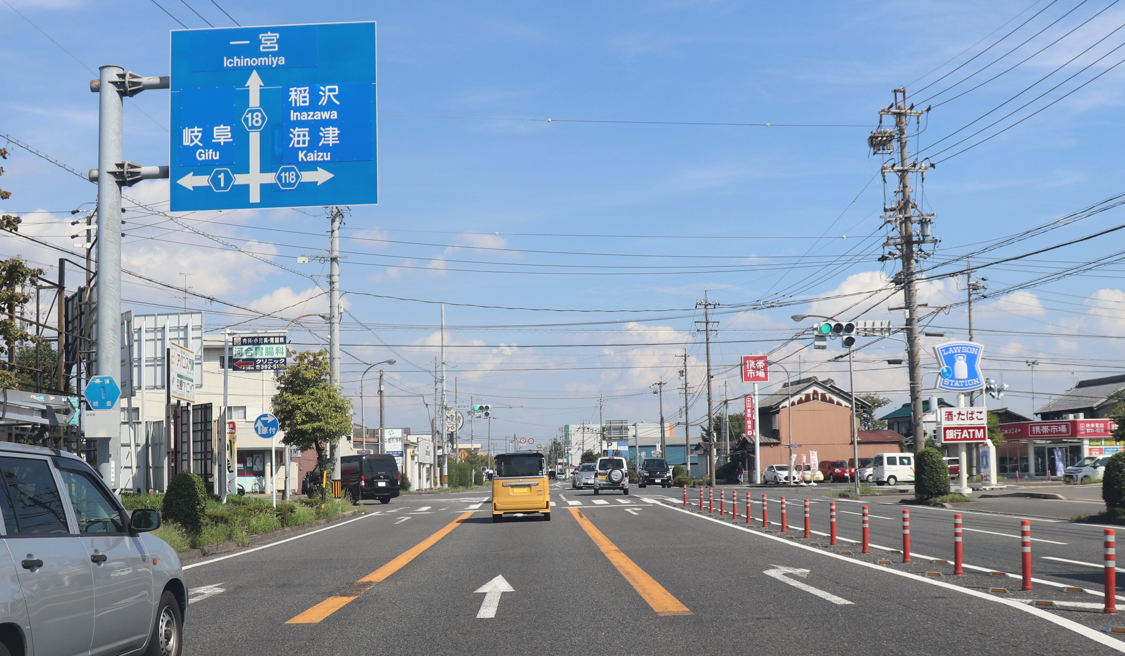 Gifu Prefectural Road Route 1 Gifu Prefectural Road Route 18 and Gifu Prefectural Road Route 118 in Takehanacho, Hashima, Gifu Prefecture, Japan.